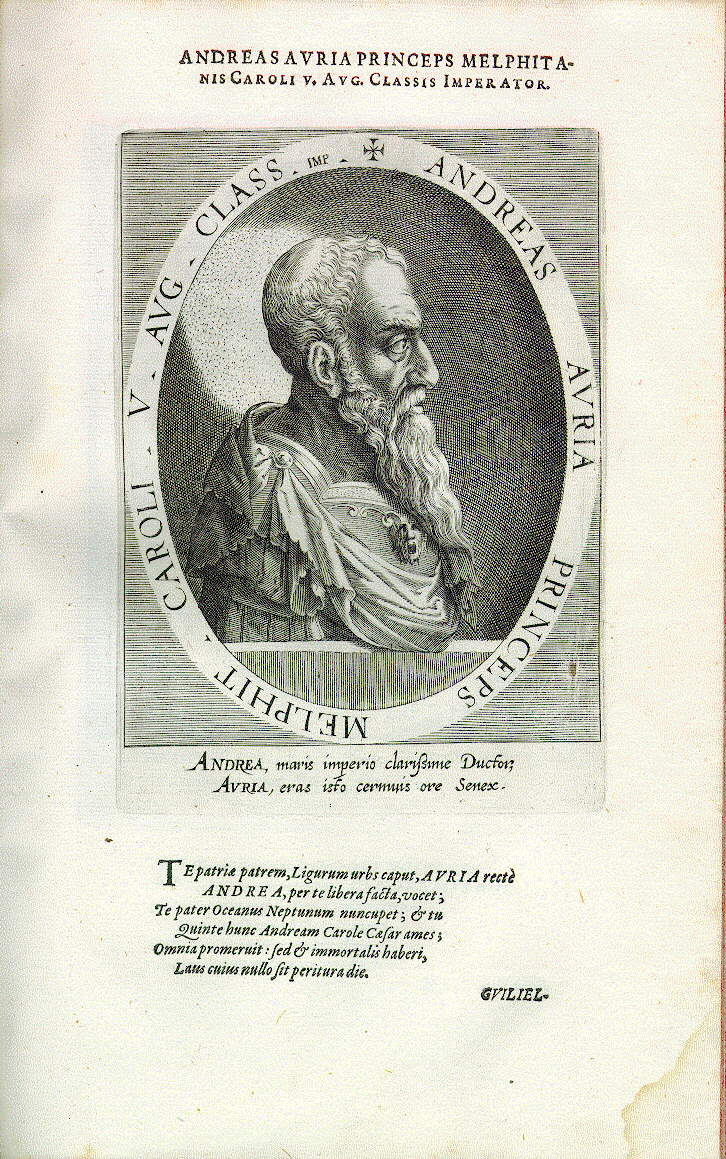 Engraved portrait of Andrea Doria (1466-1560), Genoese condottiere and admiral, published in "Atrium heroicum"